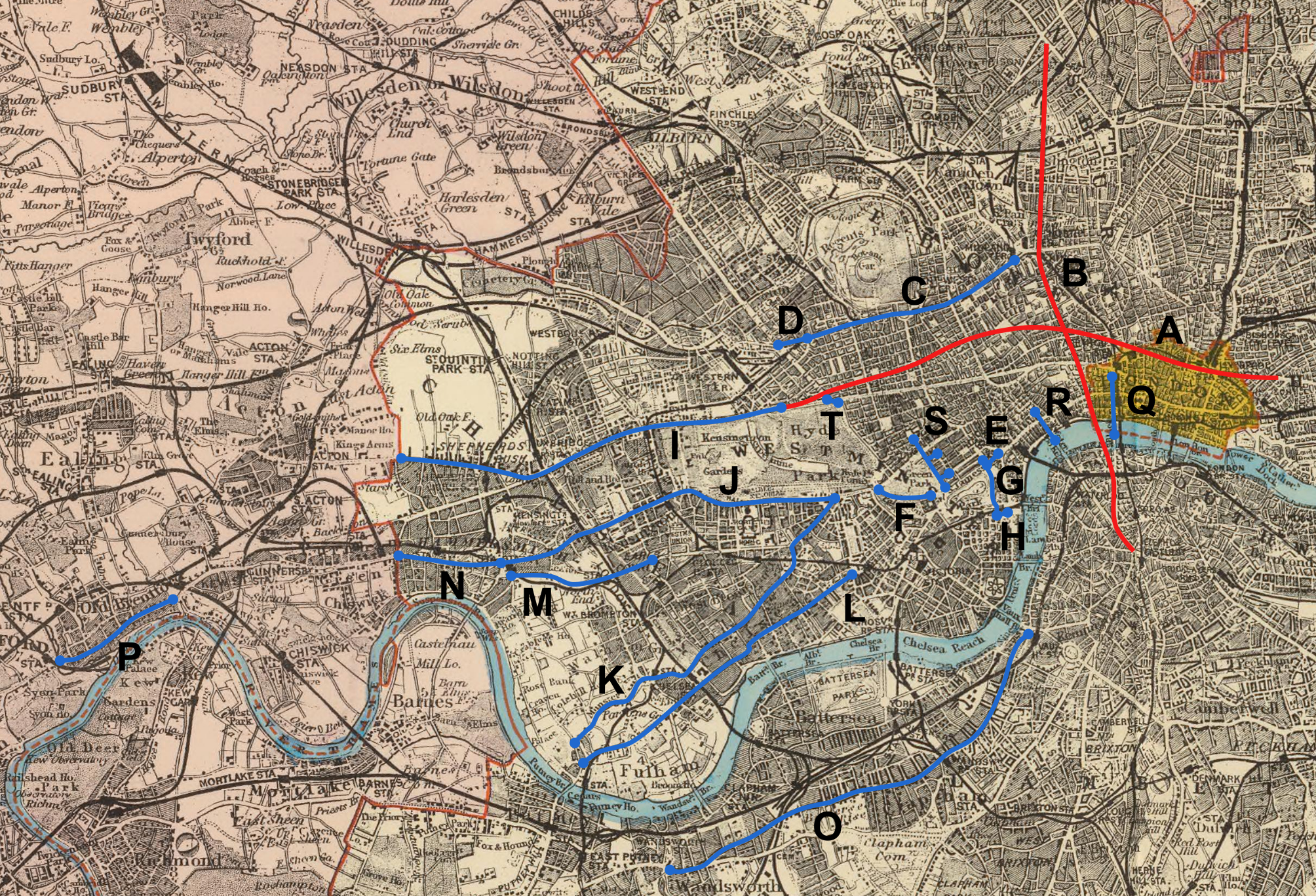 Road routes recommended for improvement in the report of the Royal Commission on London Traffic, 1903 - See article for Description of routes indicated.